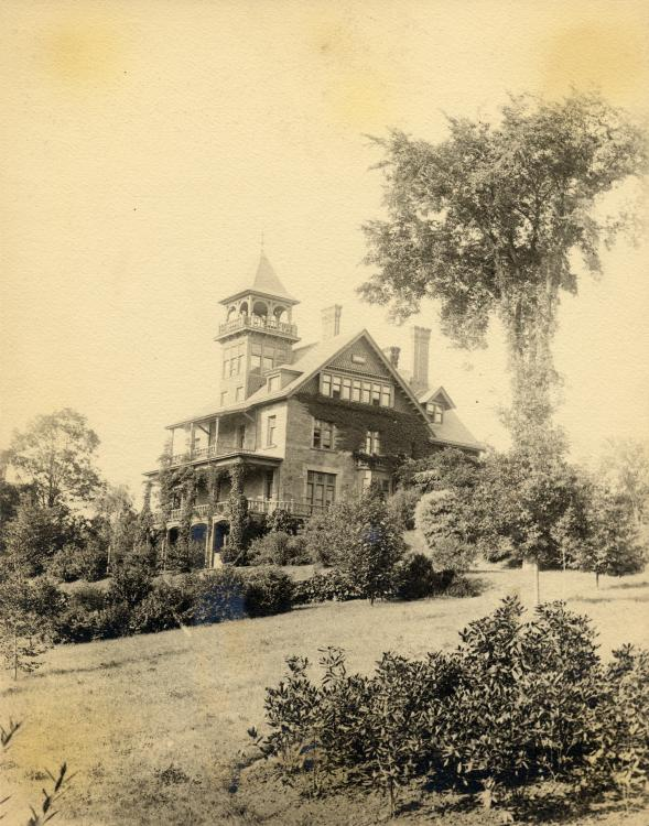 View of Marsh Hall, 360 Prospect Street, New Haven, Connecticut. The house was formerly the residence of Yale University paleontologist Othniel Charles Marsh, who lived there from 1879 until 1899. The home later became Marsh Hall, housing the offices of the Yale School of Forestry. Image courtesy of the Yale University Manuscripts & Archives Digital Images Database.